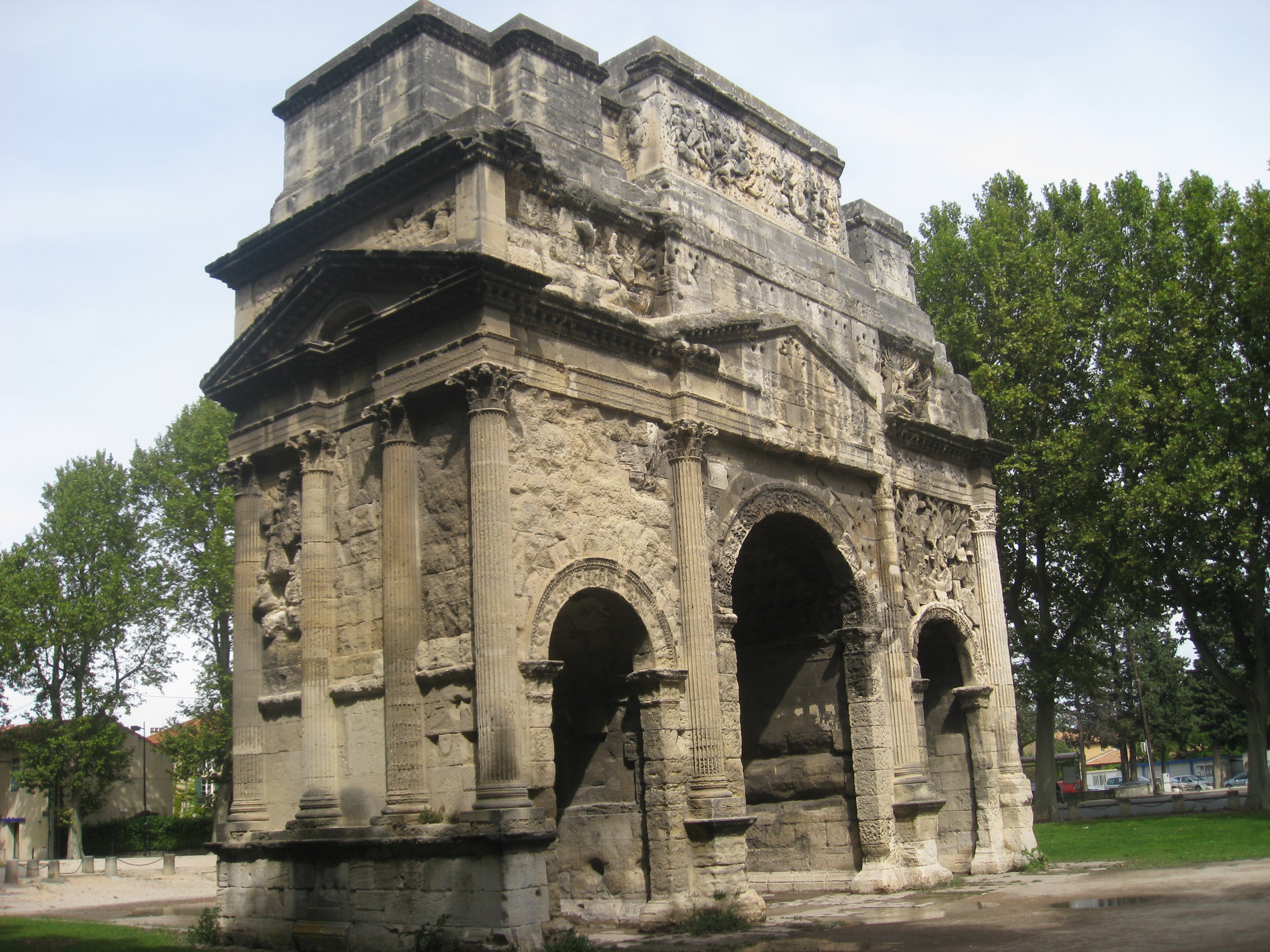 Built by the romans in Gaul celebrating victories against the Gauls